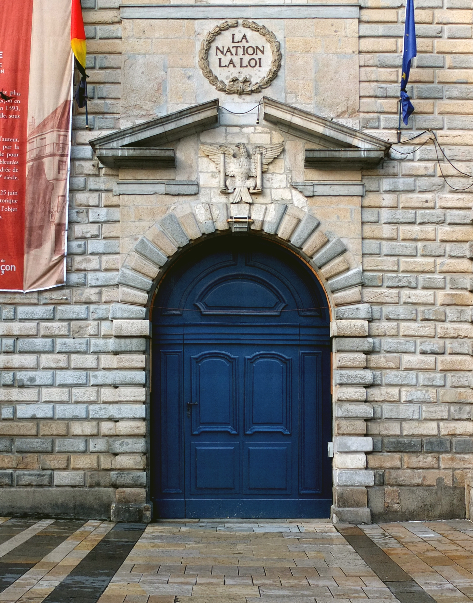 Portal of Former town hall of Besançon, France